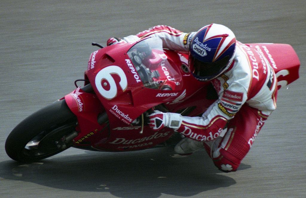 Alberto Puig, in Japanese Grand Prix 1993